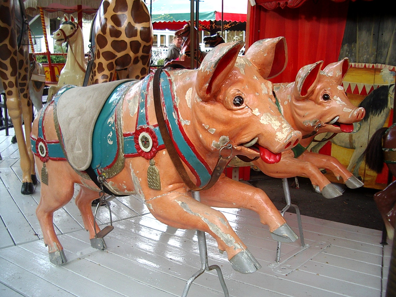 Two carousel pigs, hand-made in the late 19th century (Cirkuskarusellen at Gröna Lund, Stockholm).